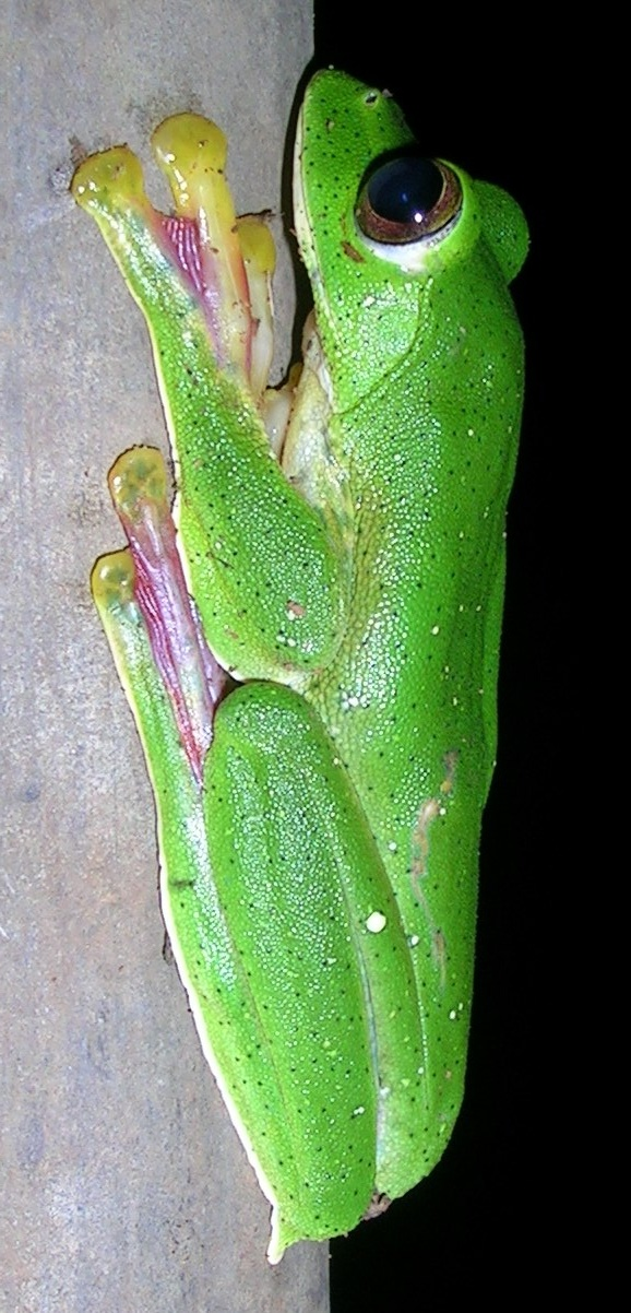 Rhacophorus malabaricus at Wayand. Sitting in the hiding posture.